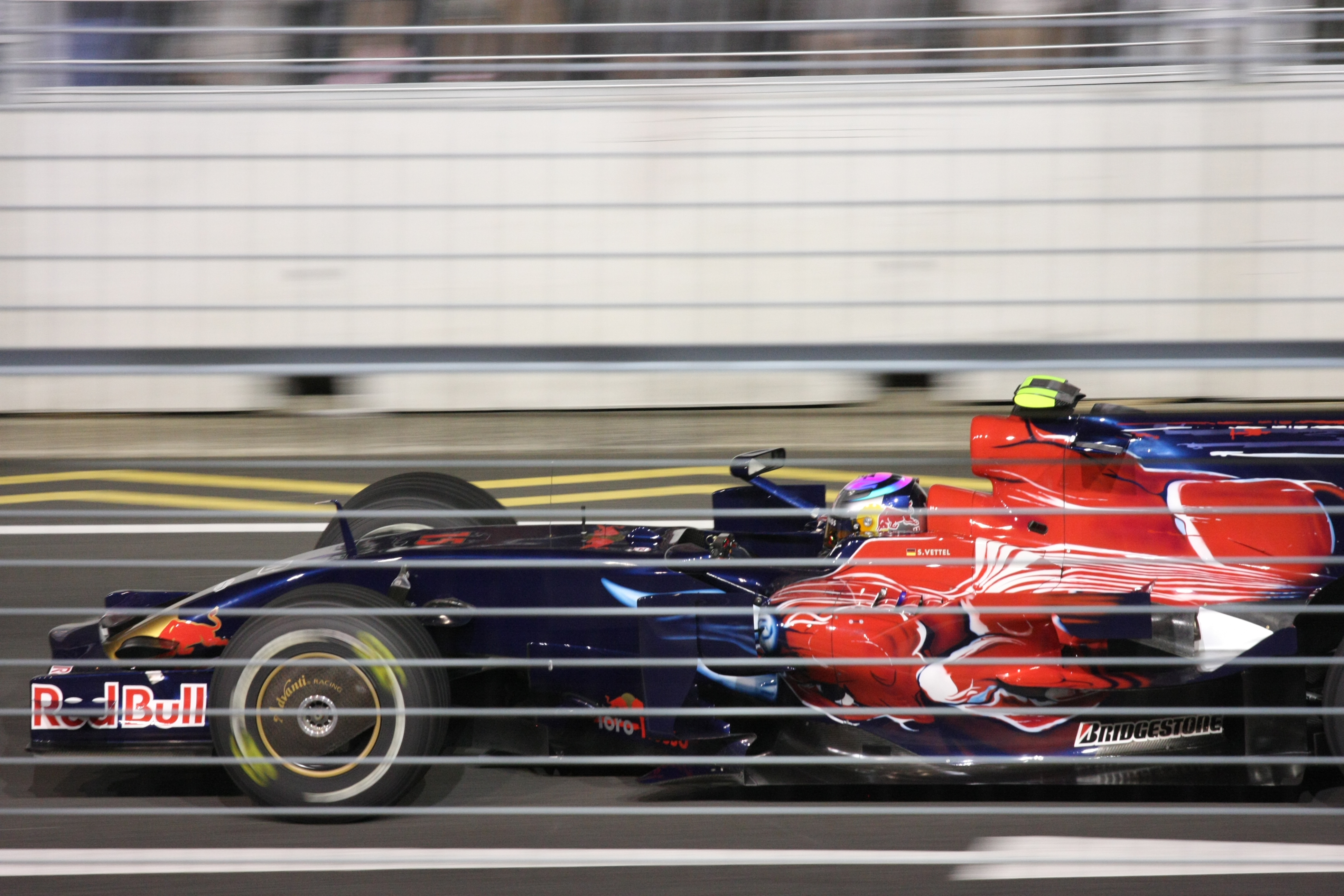 Sebastian Vettel driving for Scuderia Toro Rosso at the 2008 Singapore Grand Prix.